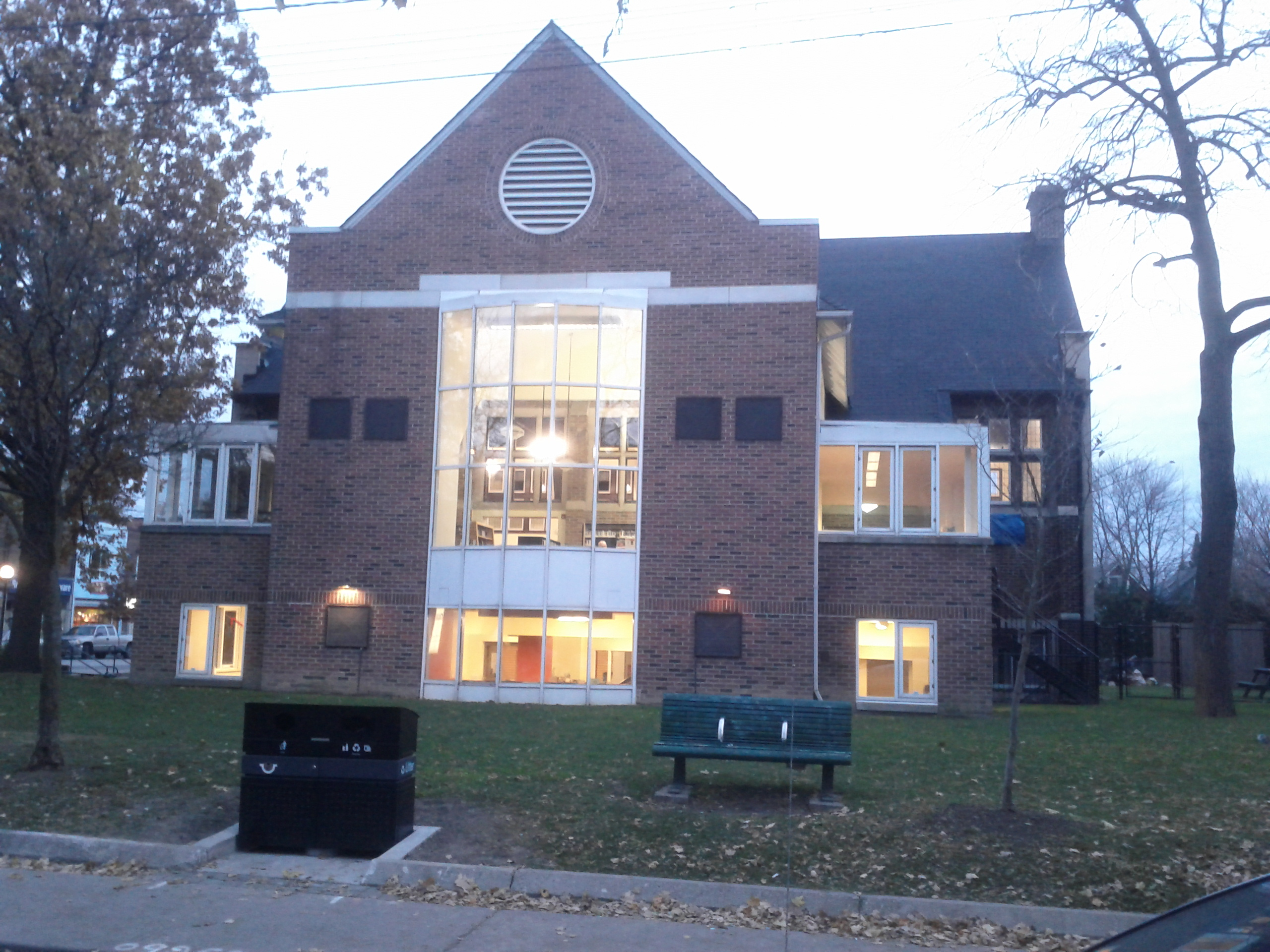 A view of High Park Library in Toronto showing its north wing, from Wright Avenue